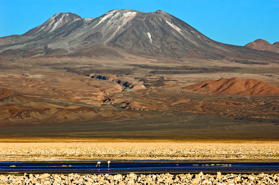 The Lascar volcano, seen from the Chaxas lagoon. In the background, the Aguas Calientes, also known as Simba volcano. Chile - II Region